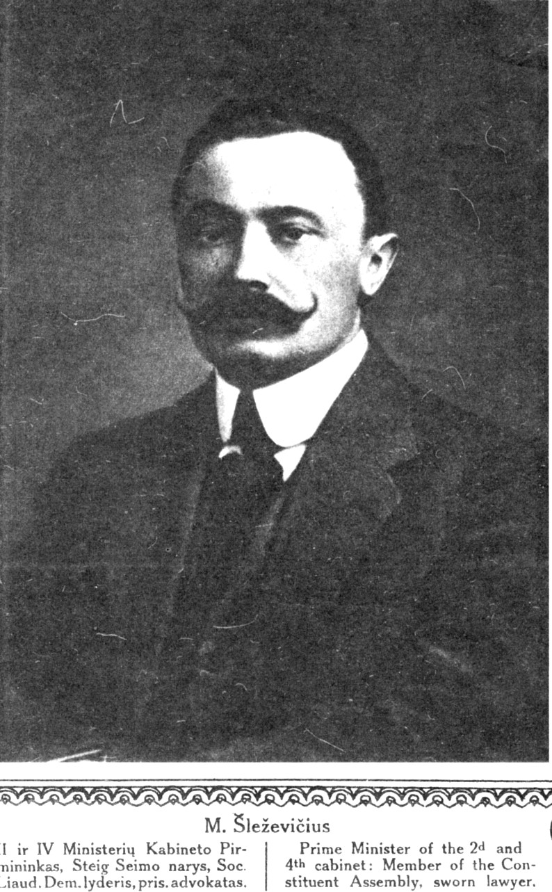 Mykolas Sleževičius, member of Constituent Assembly of Lithuania and Lithuanian Seimas, lawyer, Prime minister of Lithuania